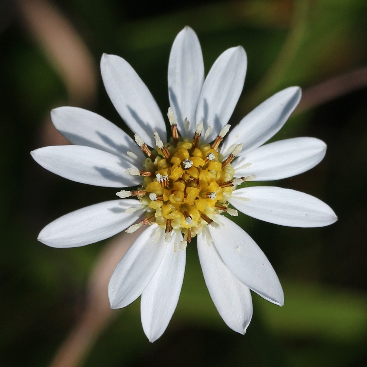 Flower of Aster rugulosus, in Imou bog, Toyohashi, Aichi prefecture, Japan.